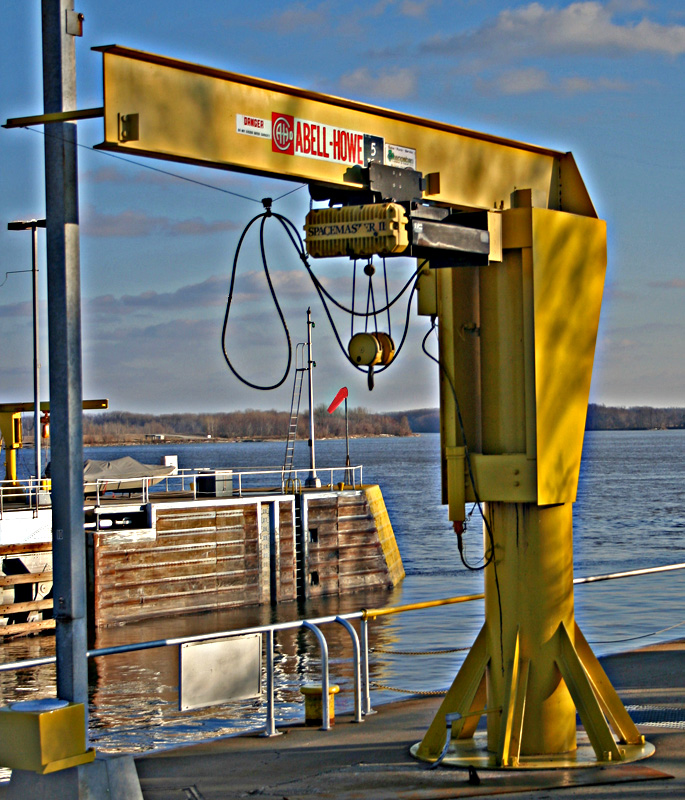 5 ton pedestal jib used by the US Army Corps of Engineers at the Mississippi Lock and Dam No. 20 in Canton, Mo.